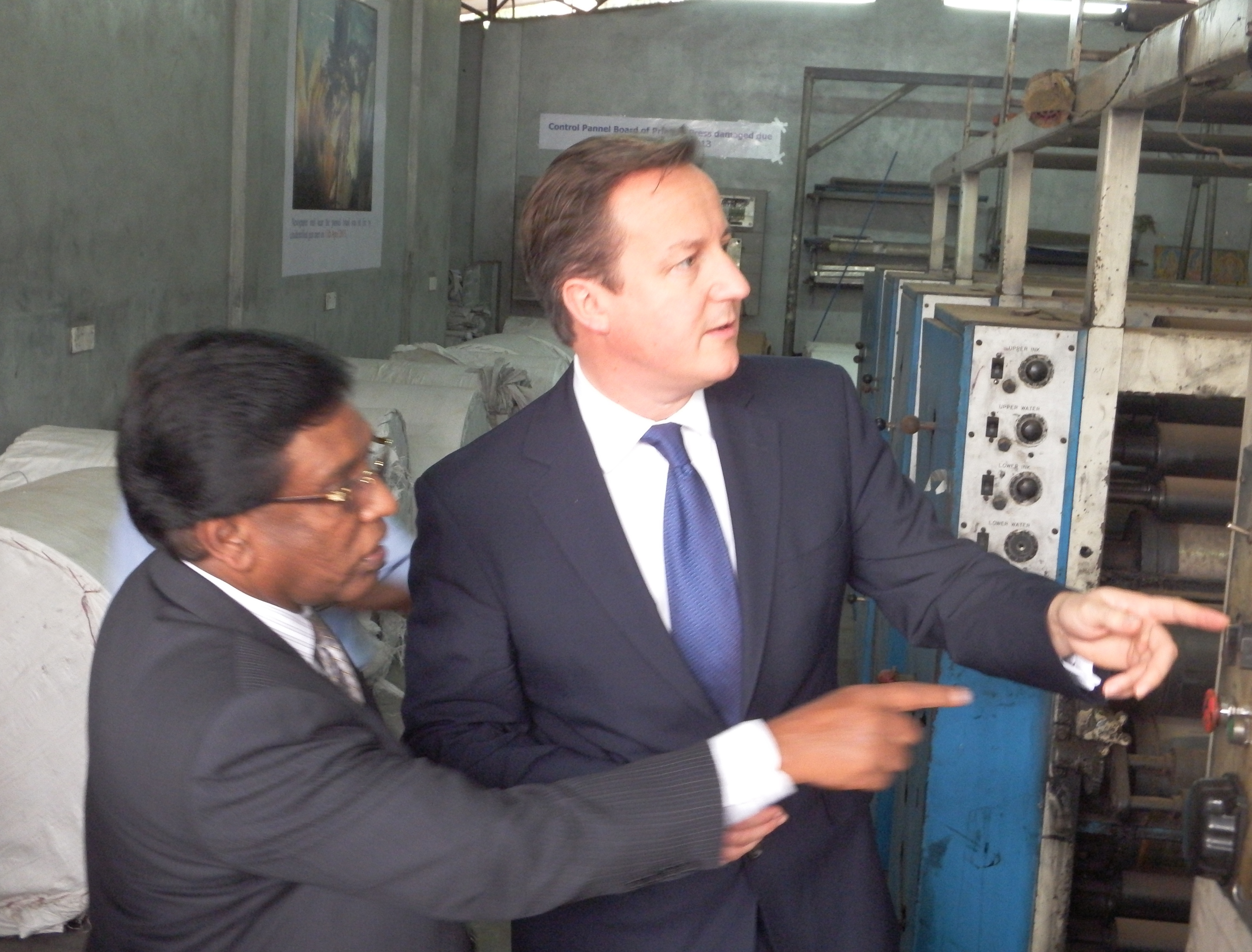 David Cameron, Prime Minister of the United Kingdom inspecting burnt down printing press of Uthayan newspaper in Jaffna on 15th November, 2013 while E. Saravanapavan, the Managing Director of the newspaper and a Member of Parliament representing Jaffna explaining something.